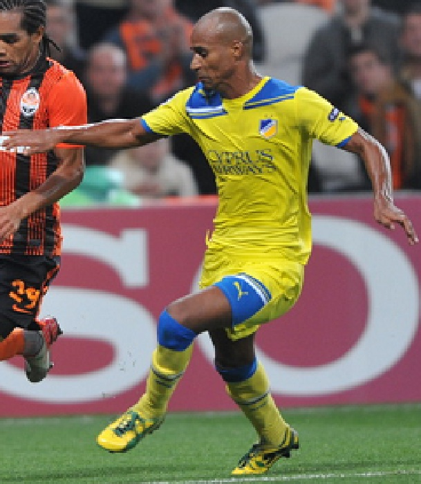 William Bonaventura is a Brazil Defender